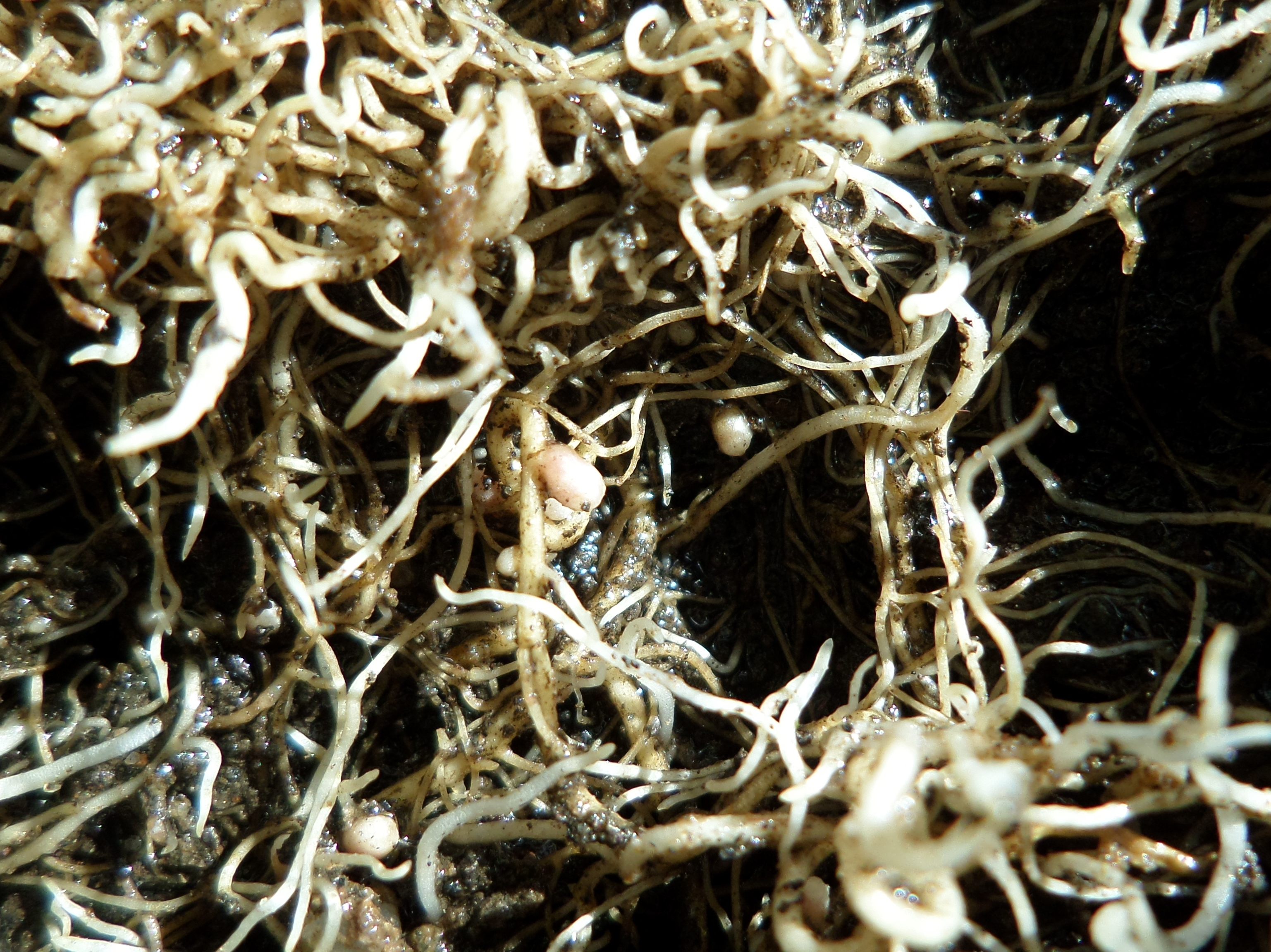 Root nodules on the roots of Trifolium repens (White Clover). The pink colour is leghaemoglobin and the bacteria within are Rhizobium species.